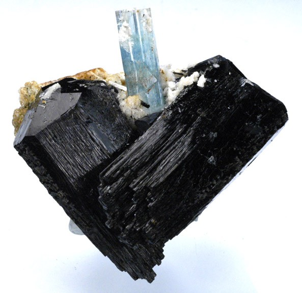 Beryl (Var.: Aquamarine), Schorl Locality: Erongo Region, Namibia (Locality at ) Some of the best contemporary Aquamarine specimens are those from Erongo. Not only is the quality superb on many of these Aqua specimens, but the associations can make for some really stellar specimens. This piece features a 2.5 cm razor sharp, highly lustrous, gem/gemmy deep blue color Aquamarine crystal aesthetically flaring out of the center of two relatively thick, lustrous, doubly-terminated black Schorl crystals plus some whitish Feldspar crystals on the reverse side of the specimen forming a highly displayable and attractive combination specimen from this prolific locality. One end of the Schorl crystals is comprised of dozens of tiny terminations. A very good specimen for size, aesthetics, color contrast and associations. 6.4 x 5.0 x 3.7cm